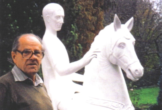 Heinrich Janke in front of plaster cast of Augustus' horse, exhibited at Waldgirmes